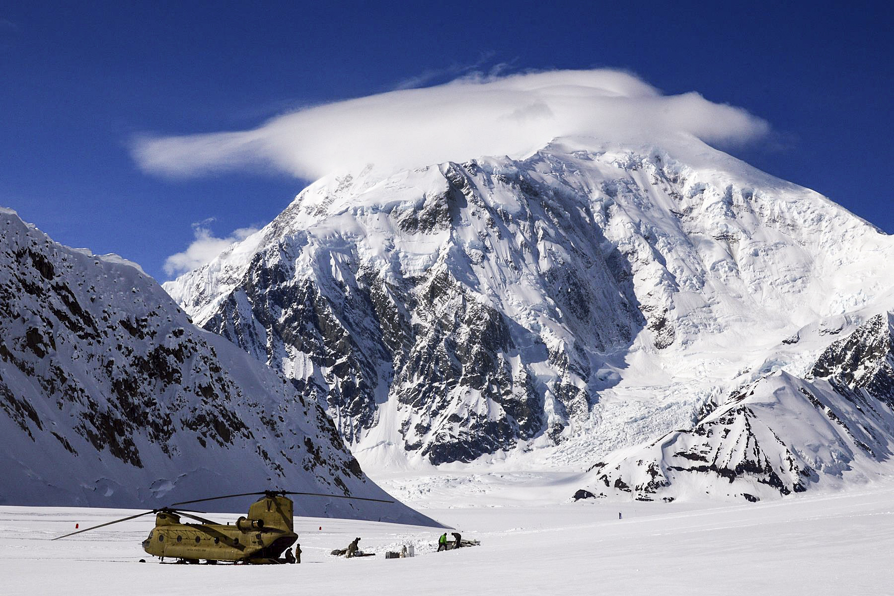 Mount Foraker (17,400 feet) towers above Soldiers from B Company, 1st Battalion, 52nd Aviation Regiment as they offload equipment and supplies from a CH-47F Chinook helicopter after landing on Kahiltna Glacier. Three crews from the U.S. Army Alaska Aviation Task Force spent the week in Talkeetna, Alaska, training in high altitude flying through the Alaska Range. The mission for Sunday, April 24, included continuing a longstanding partnership with the National Park Service to shuttle equipment and supplies to the Park Service base camp on Kahiltna Glacier for the upcoming climbing season on Denali.